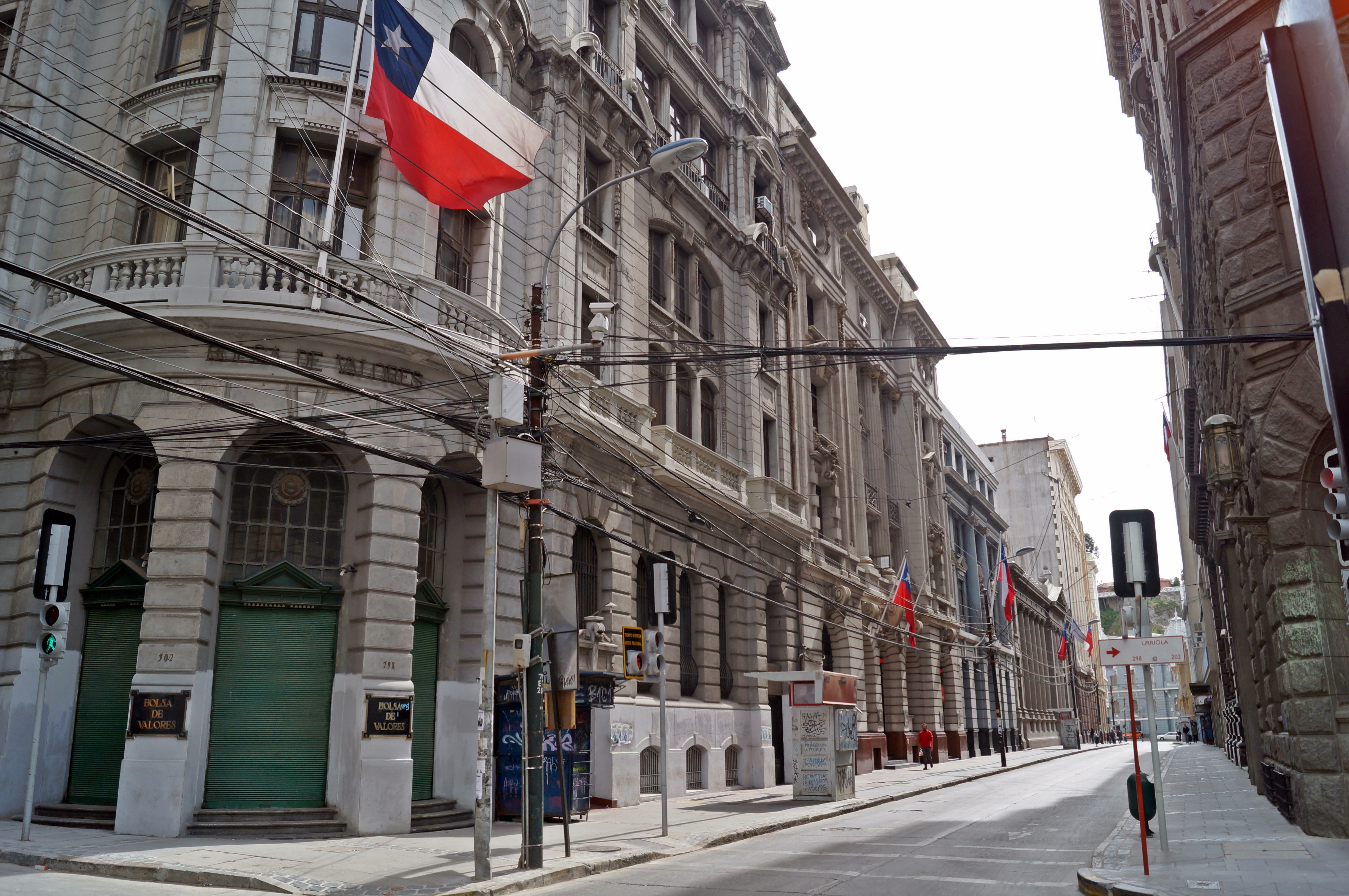 This is a photo of a national monument in Chile: 475